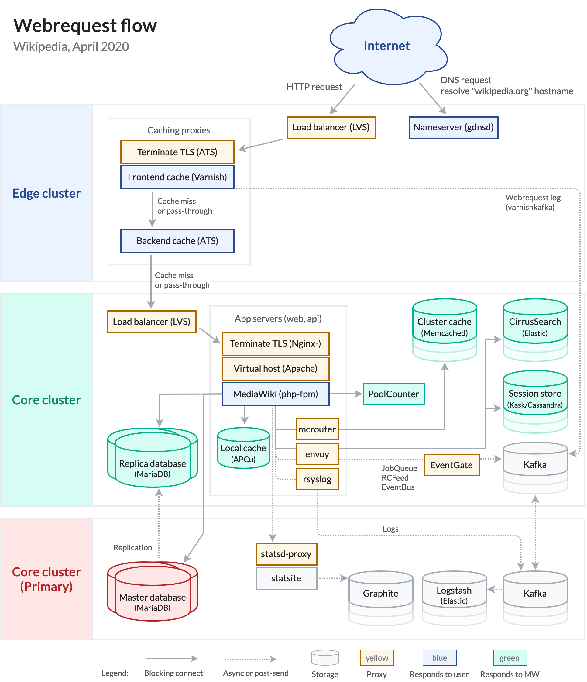 The life of a Wikipedia webrequest inside Wikimedia Foundation infrastructure, as of April 2020.